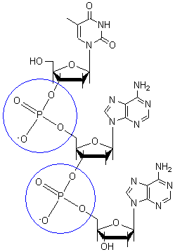 Diagram of Phosphodiester bonds between Nucleotides